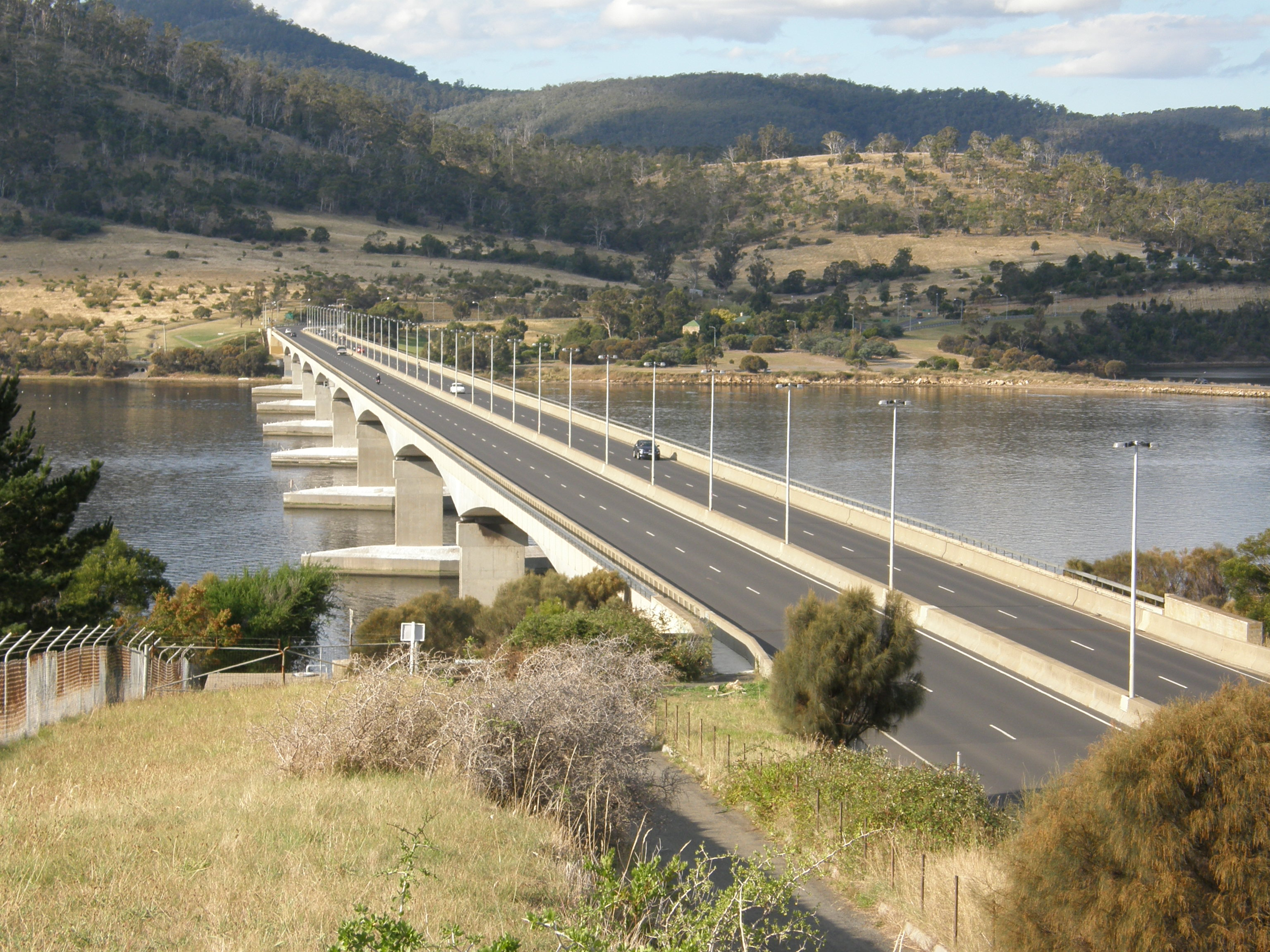 Taken from the western shore of The River Derwent: The Bowen Bridge